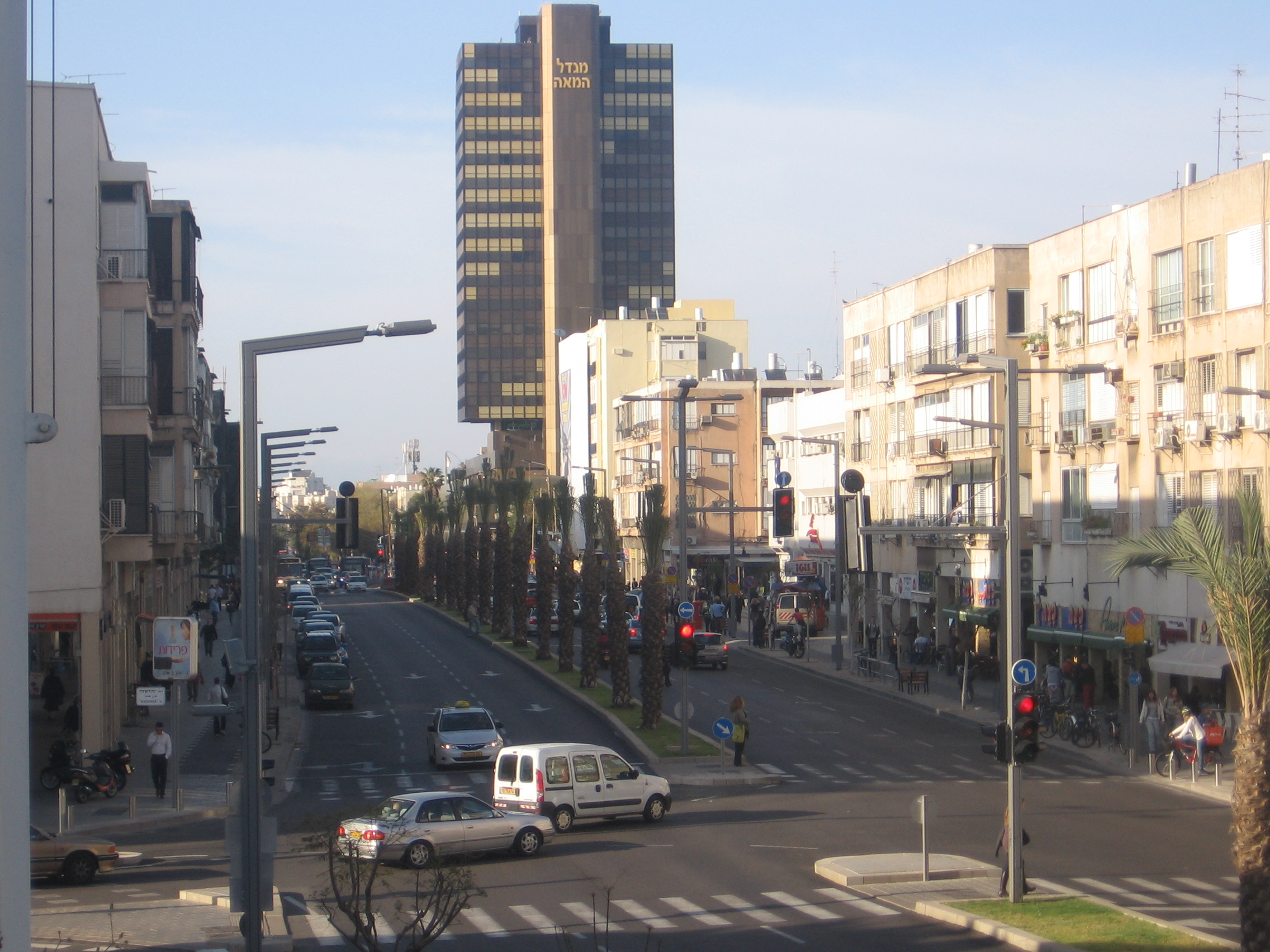 Ibn Gvirol st. in Tel Aviv.